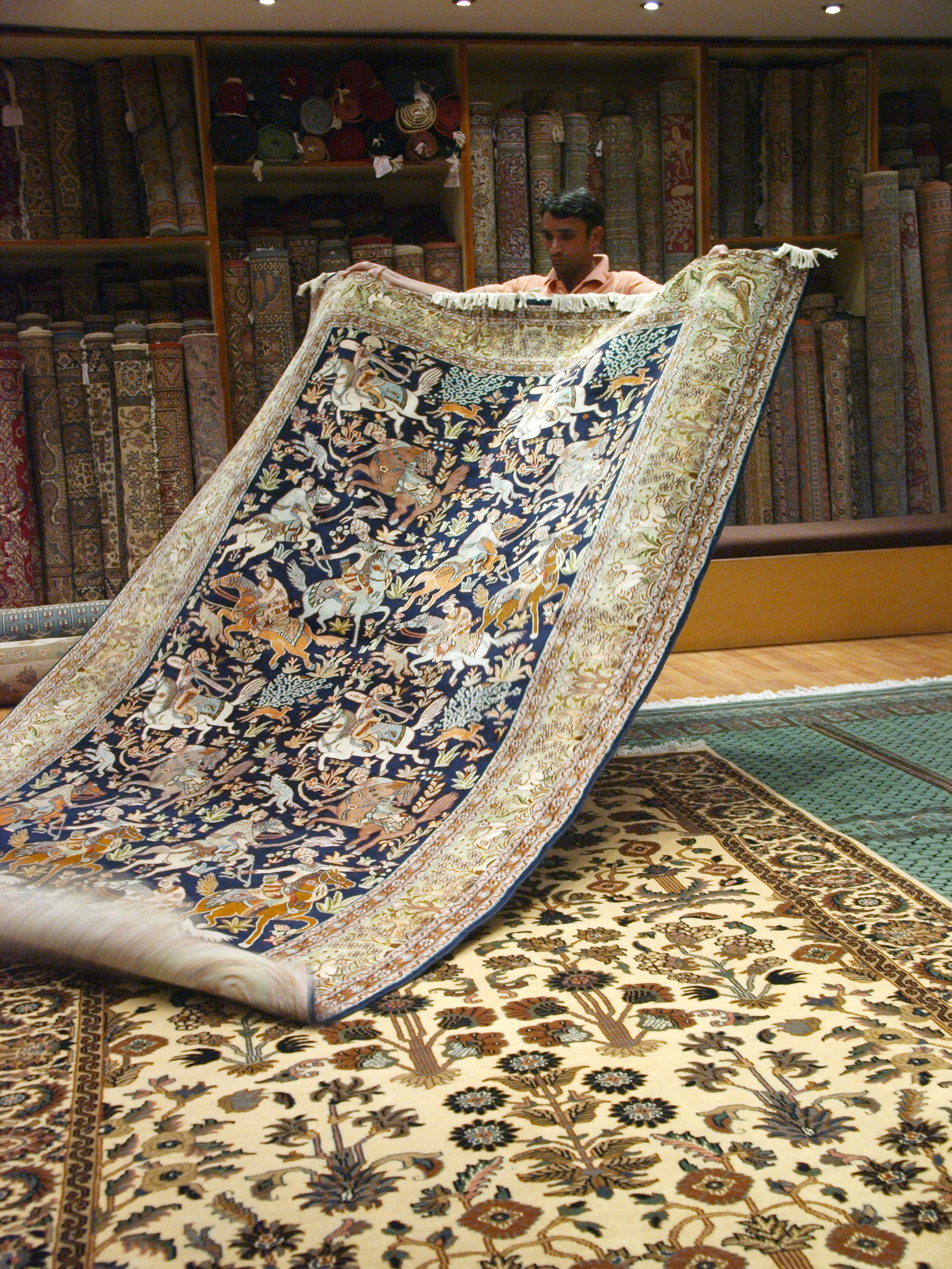 Jaipur carpet factory